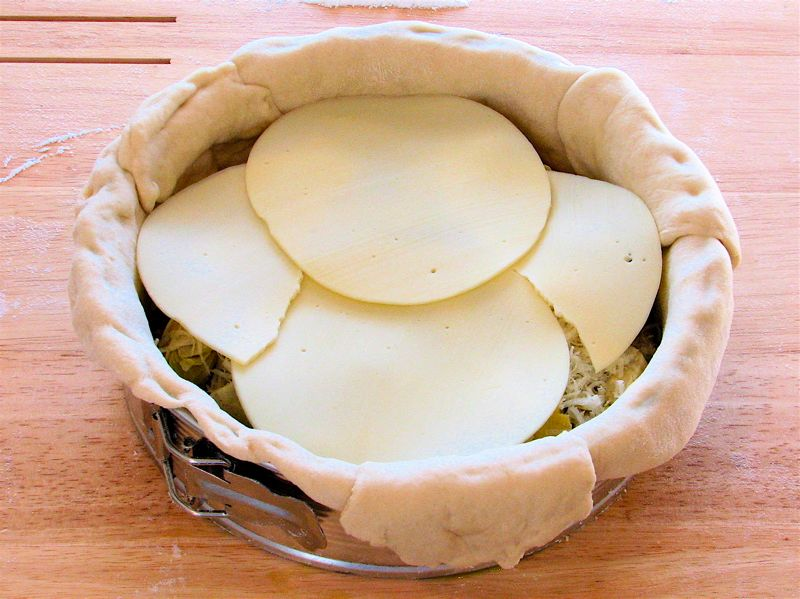 Read about stuffed pizza and springform pans at .